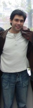 Jiddu Pinheiro is a actor from Brazil.